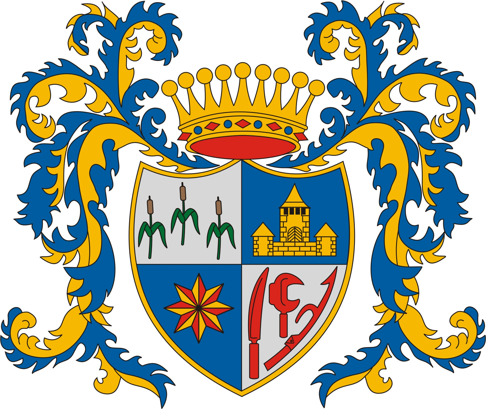 Coat of arms of Lepsény, Hungary